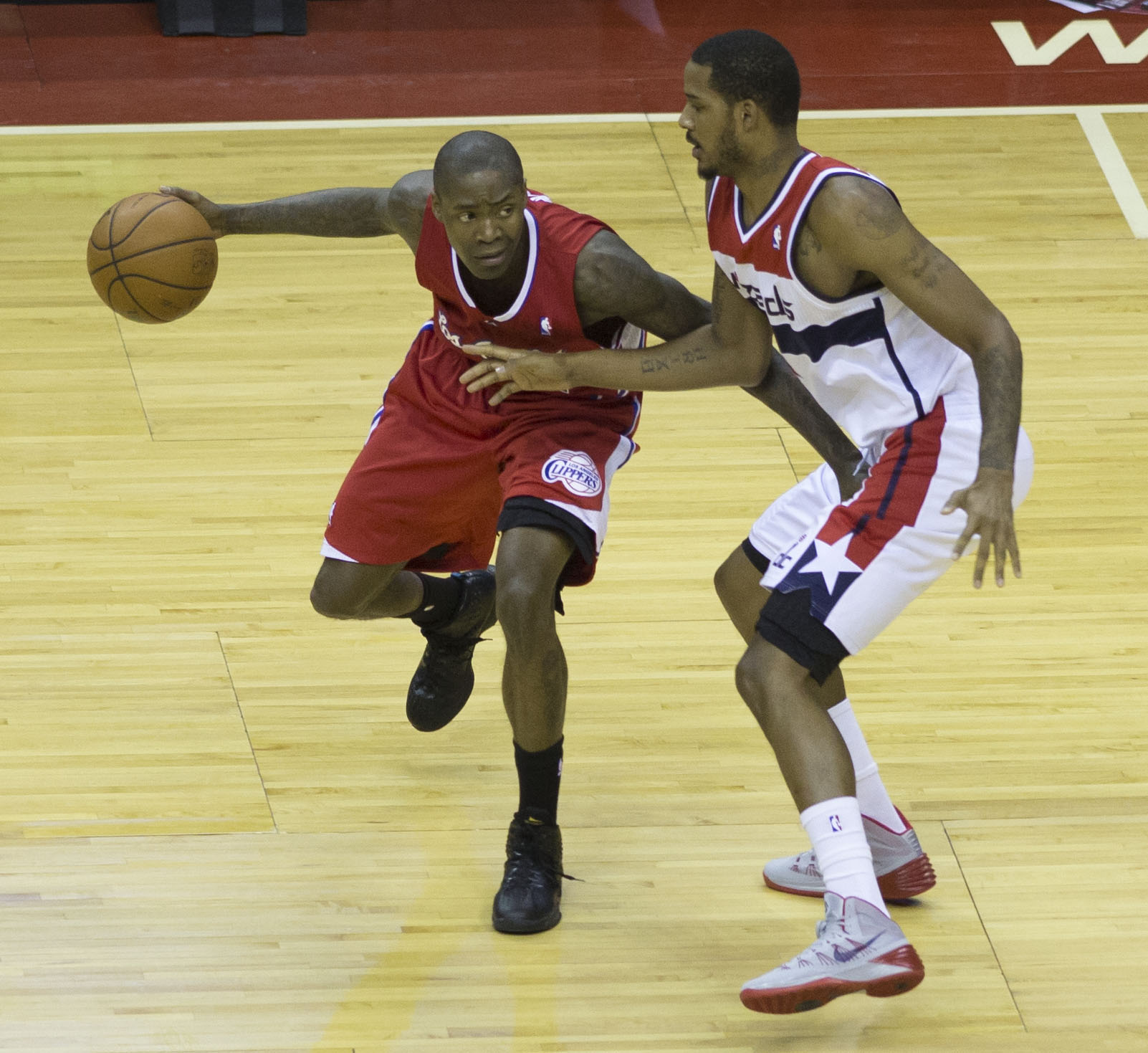 Clippers at Wizards 12/14/13